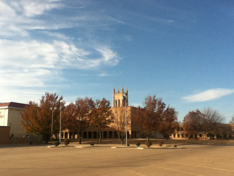 A view from the parking lot of the Marshall Building in Enid Oklahoma which houses the Bivens Chapel.